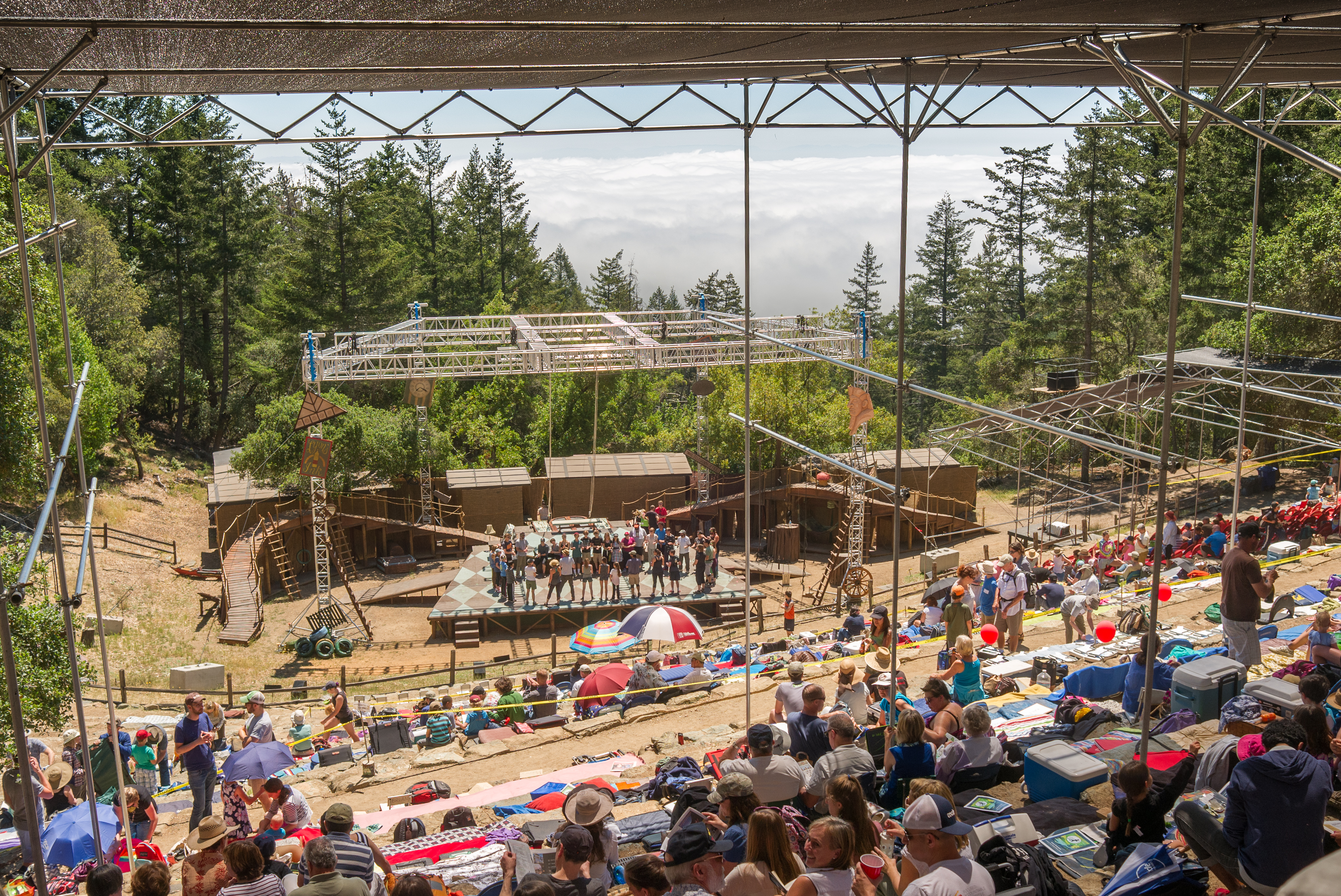 Mill Valley Mountain Play 2015. Preparations for the show Peter Pan on June 13, 2015.